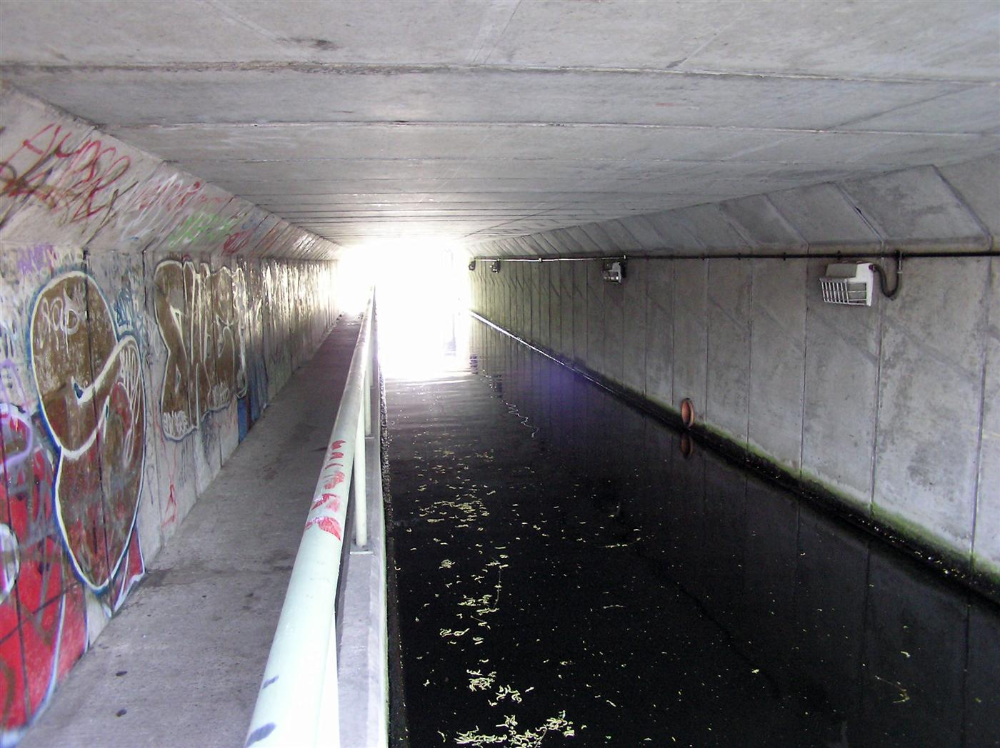 View Through Wakefield Road Tunnel At Aspley Basin (A629) which connects the Huddersfield Broad and narrow Canals